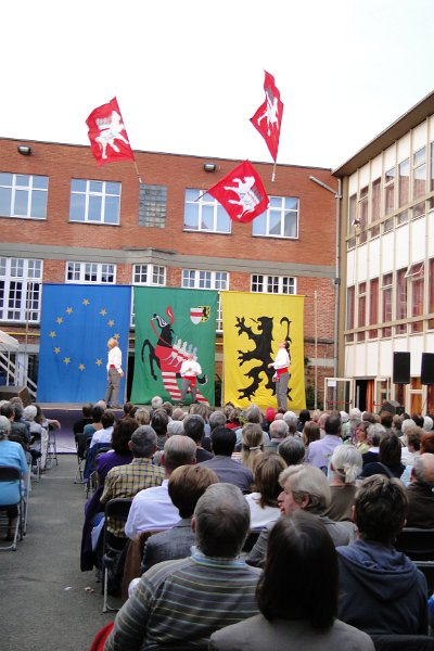 Vendelzwaaien